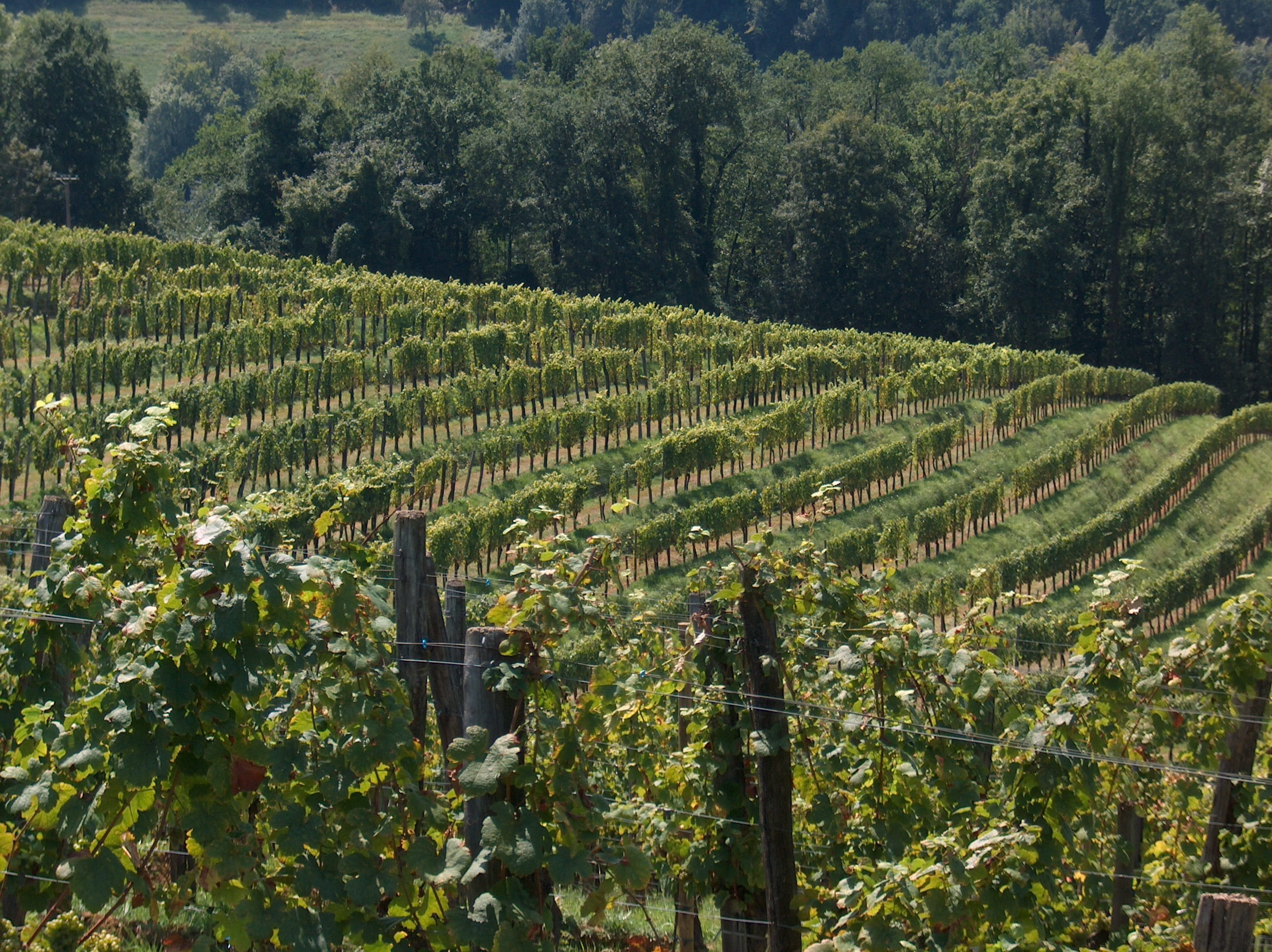 vineyards of jurançon. laroin. Domaine de Souch.